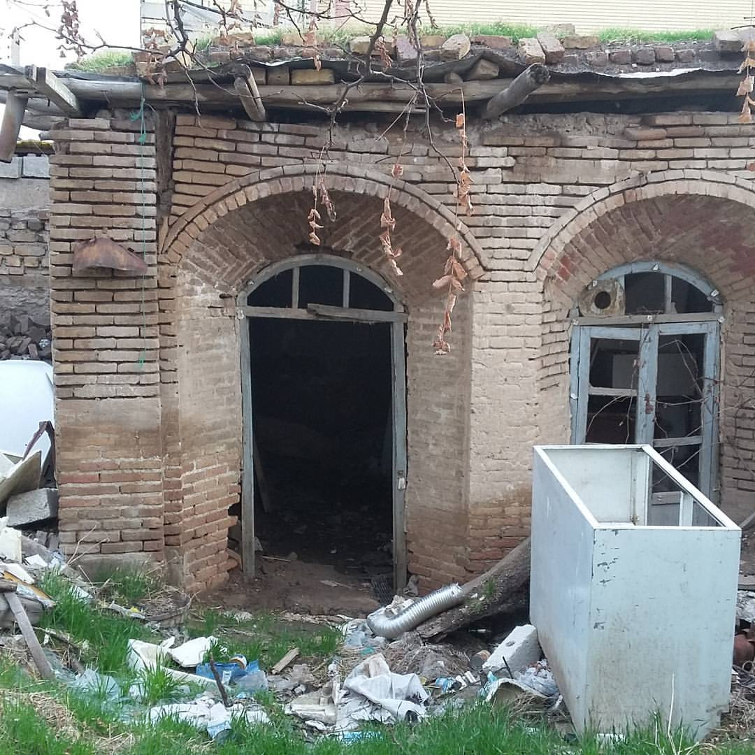 خانه عارف قزوینی